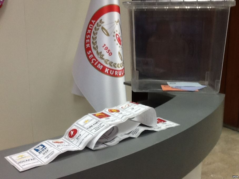 Ballot papers of 2014 Local Elections in Republic of Turkey.